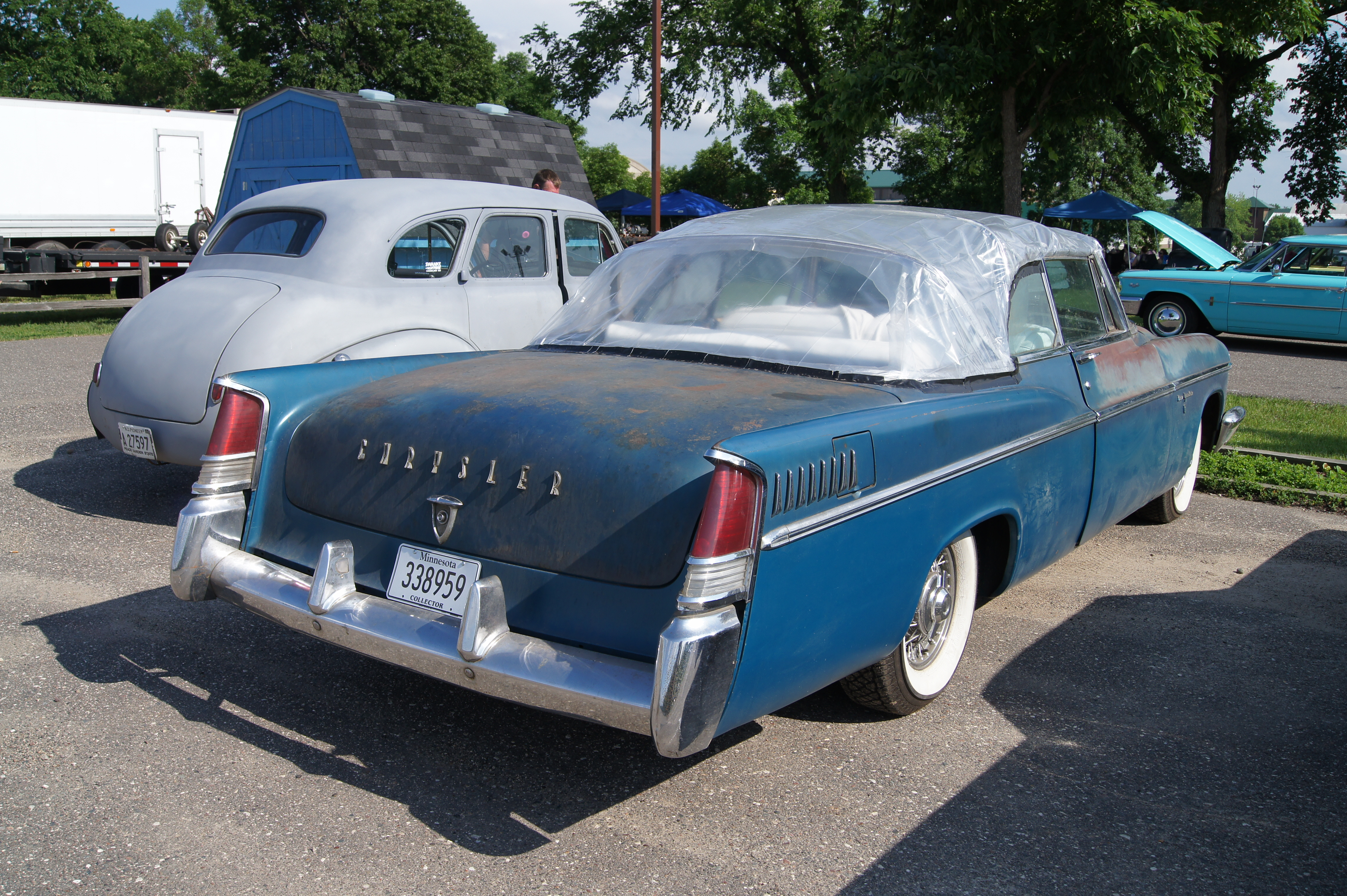 MSRA “BACK TO THE 50′s” 40th ANNIVERSARY June 21-23, 2013 State Fairgrounds St. Paul Minnesota More Car Pictures